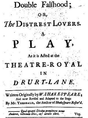 Title page of the 1728 quarto edition of Lewis Theobald's Double Falshood